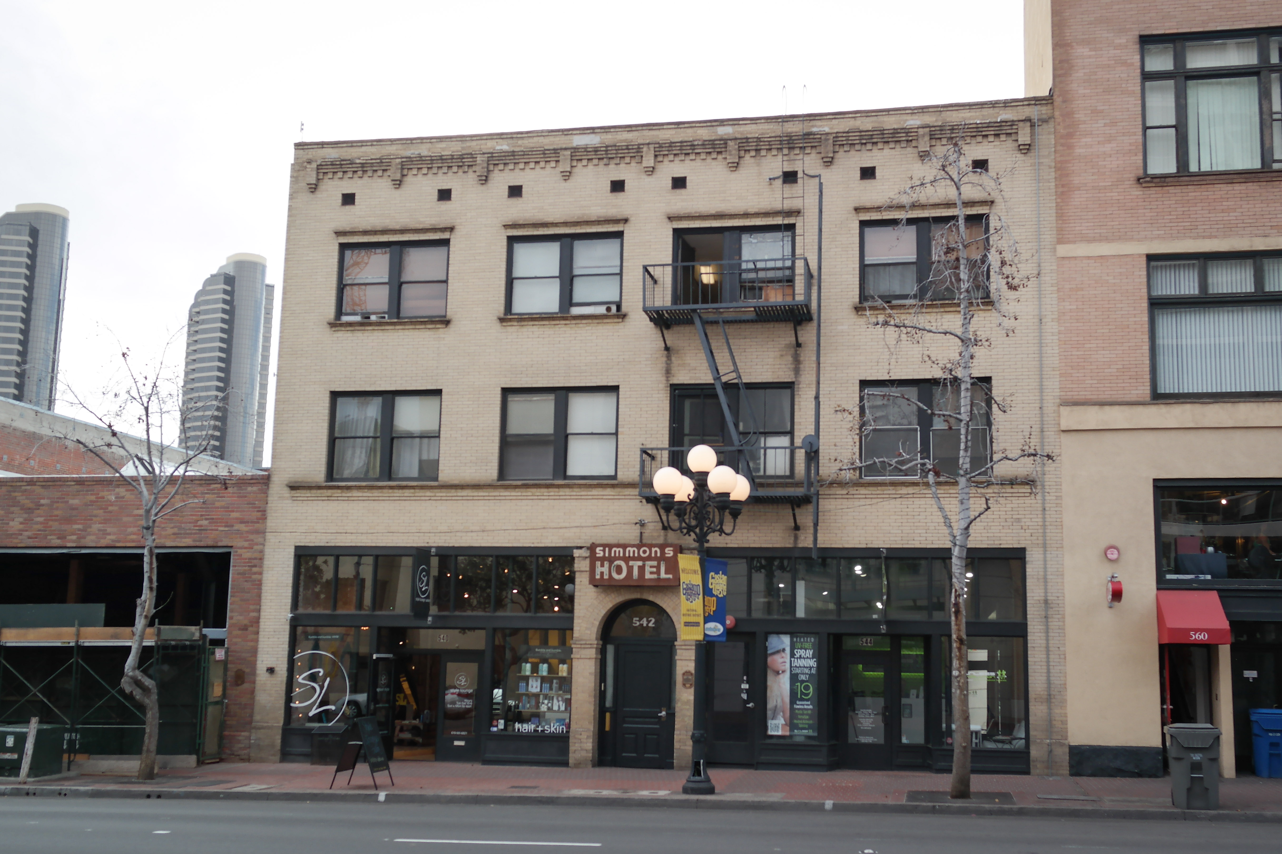 Historic Building Survey plaque: "79 Simmons Hotel, 1906. This three-story brick structure consists of a composition roof with an eighteen-inch parapet on top. It was constructed in close conjunction with the nearly identical building next to it. The first floor has been used for stores, consisting of a wallpaper and paint store, a grocer and a furniture store, to name a few. The upper two floors have been used as a hotel, with names such as the Burbank, the Prescott, and the Hotel North."